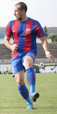 U Cluj - Steaua Bucharet 1-2 (1-1) Niculescu (8' 11m)/Dorel Stoica (45'), Bogdan Stancu (73')